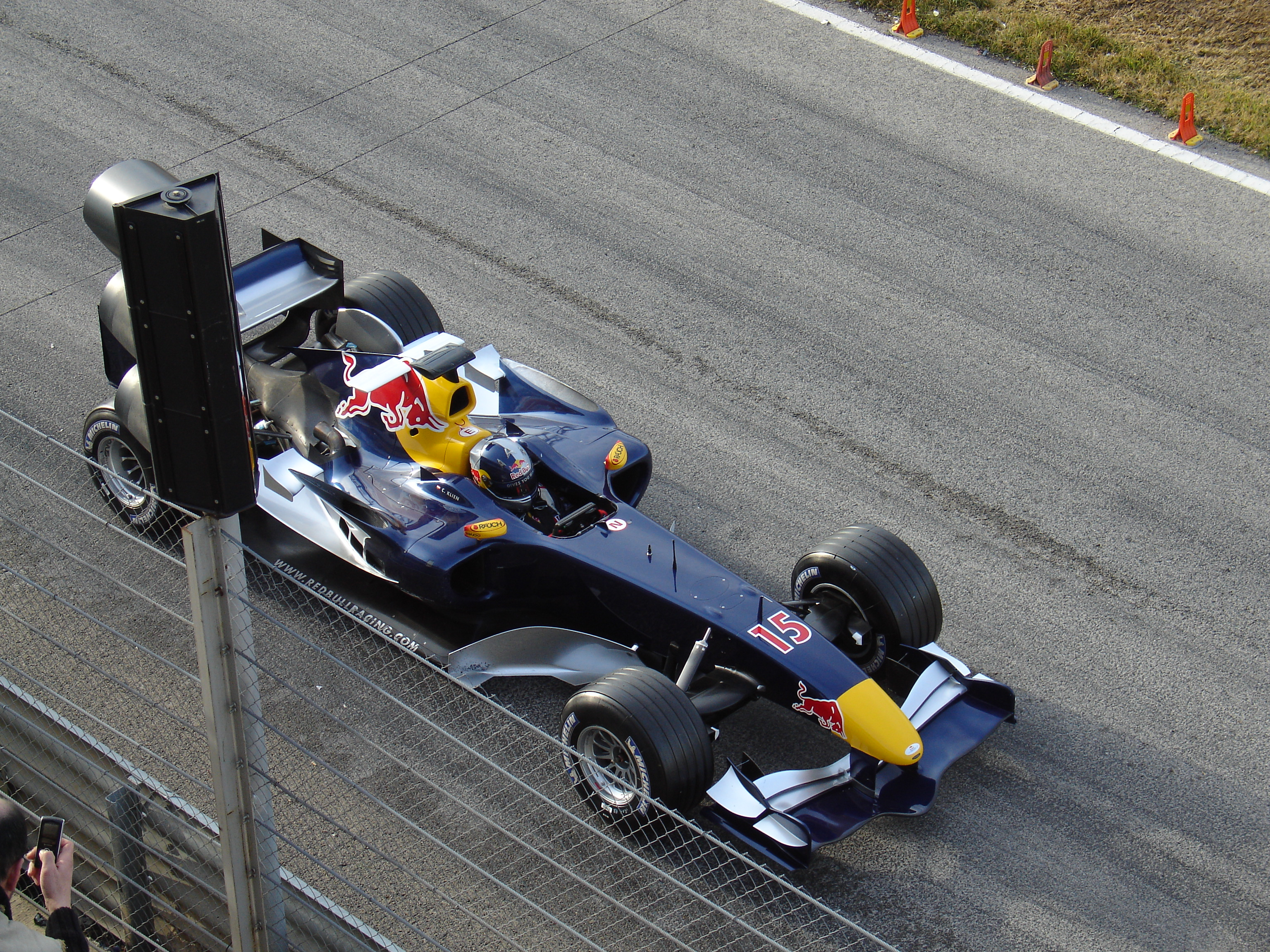 Christian Klien at Cheste Circuit (Valencia)